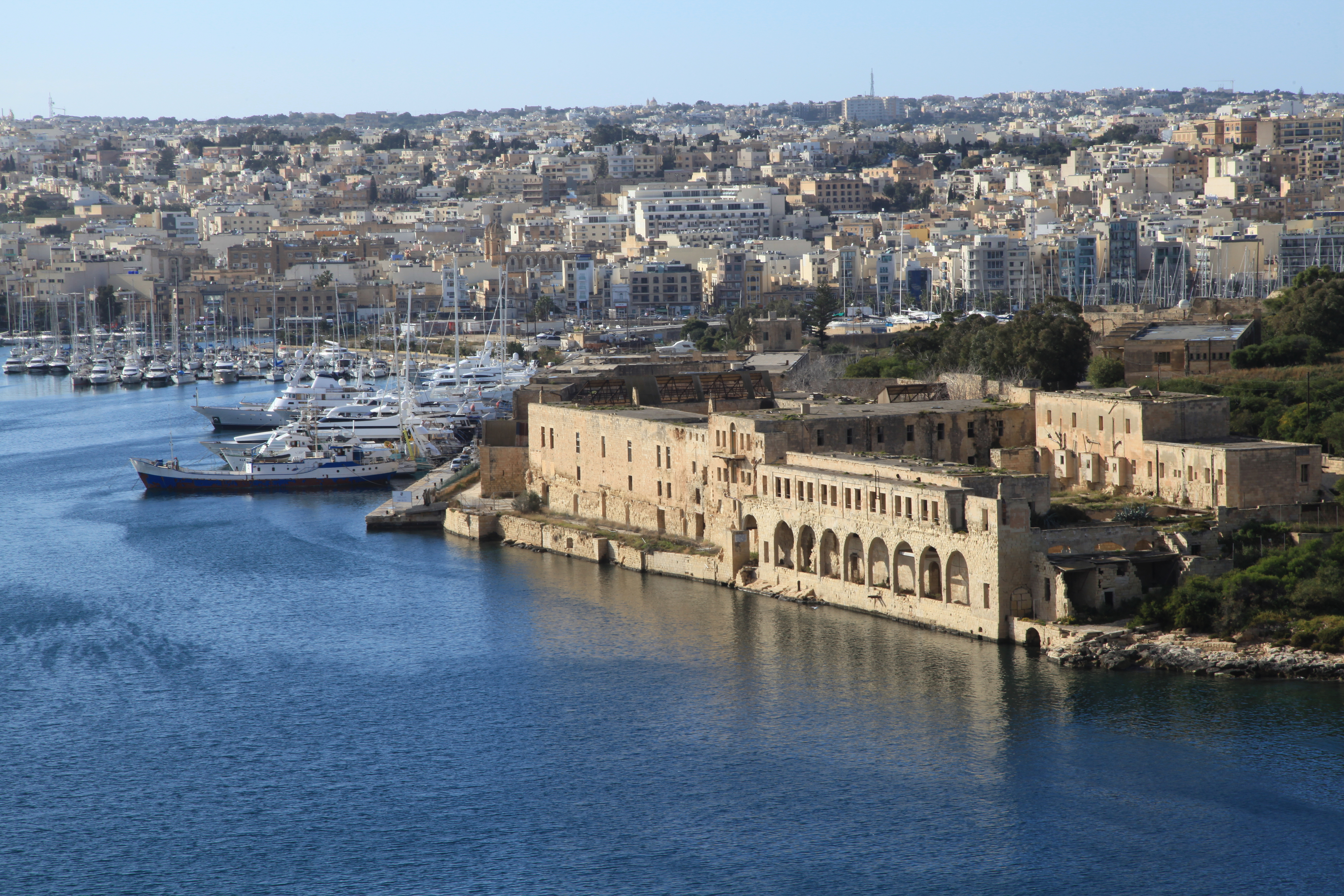 View from St. Andrew's Bastion in Valletta to the Lazzaretto on Manoel Island in Gżira